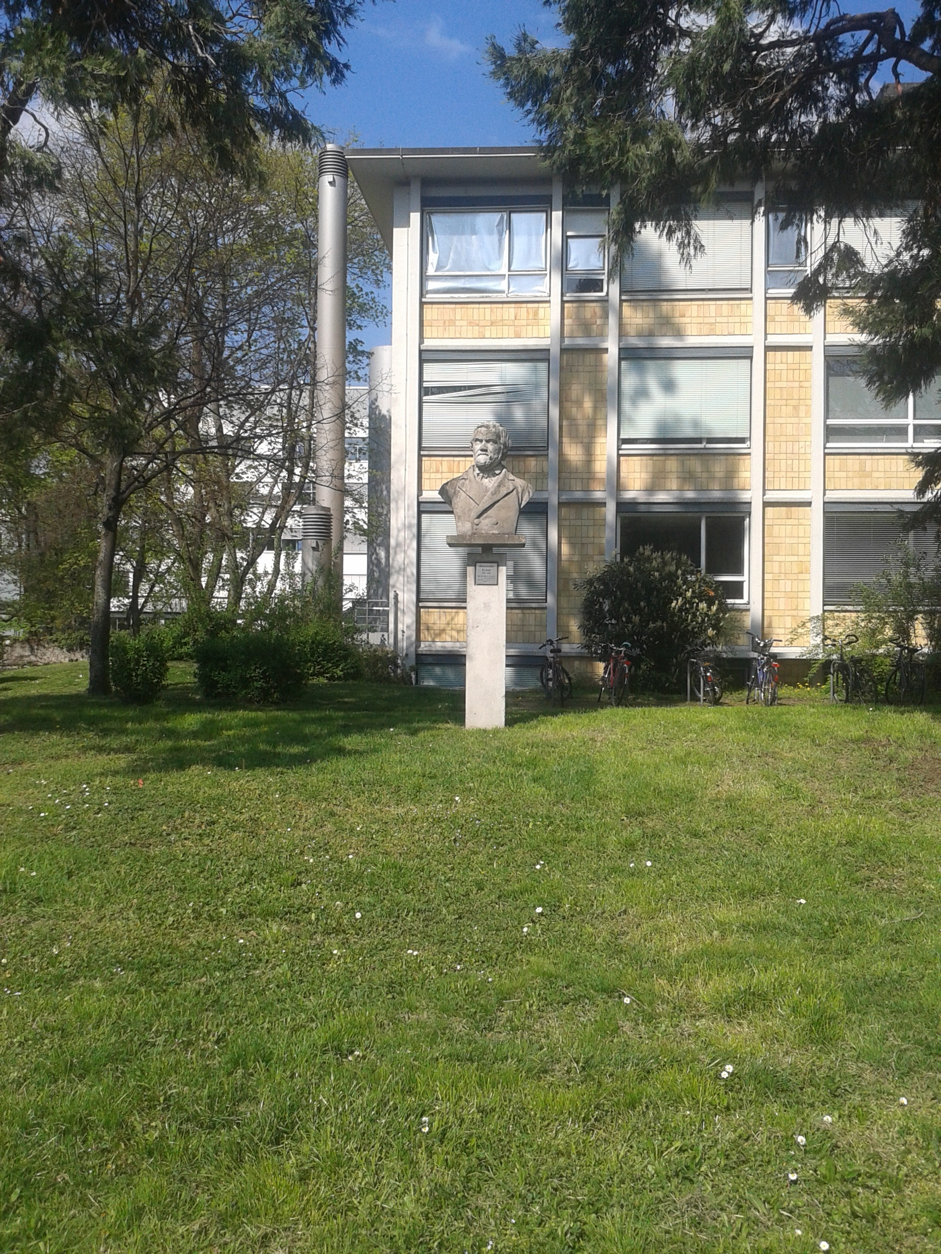 Institut of Anatomy, University of Freiburg im Breisgau